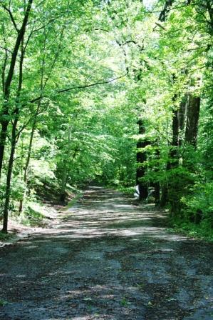 Klingle Road was one of the beautiful roads designed by Frederick Olmstead Jr. These serpentine roads allowed for drivers to enjoy their drives from one destination to the other without the hassle of urban traffic from above the park. View of Klingle Road, Washington DC, May 2008